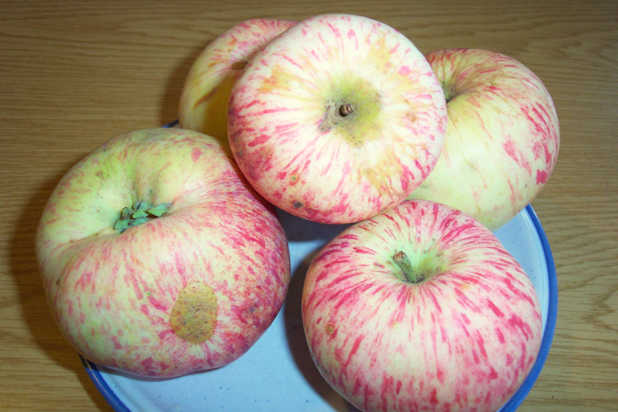 Arpetan: Sommerapfel 'Charlamowsy'